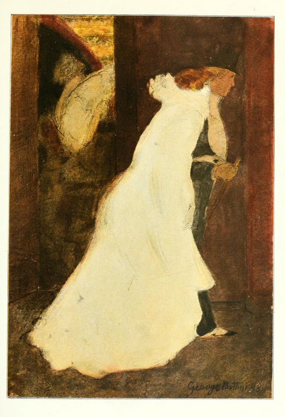 Une sortie de théâtre, color print from an etching by George Bottini, published in The Studio, issue 82, january 1900.